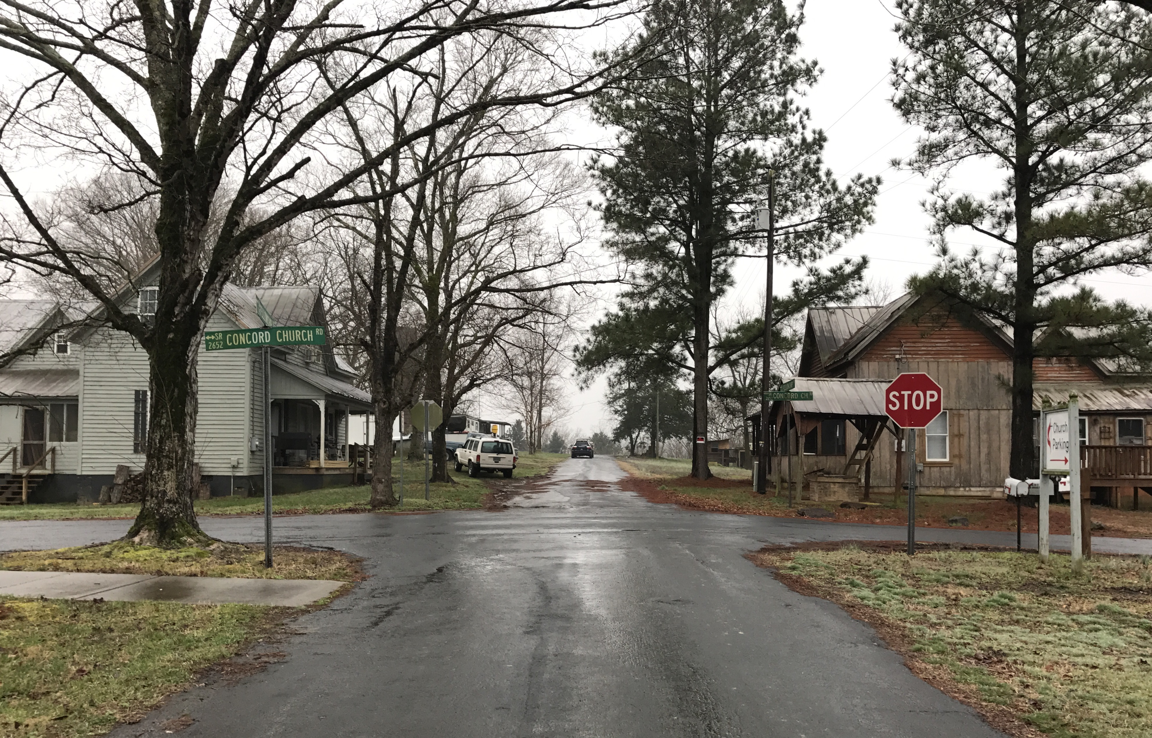 Intersection in Coleridge